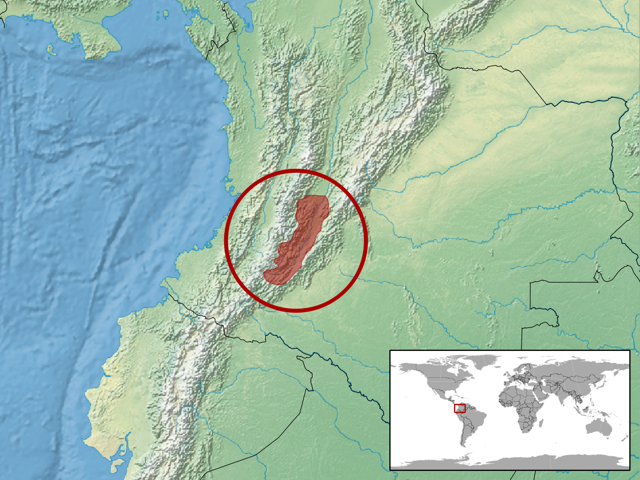 geographic distribution of Ptychoglossus bicolor